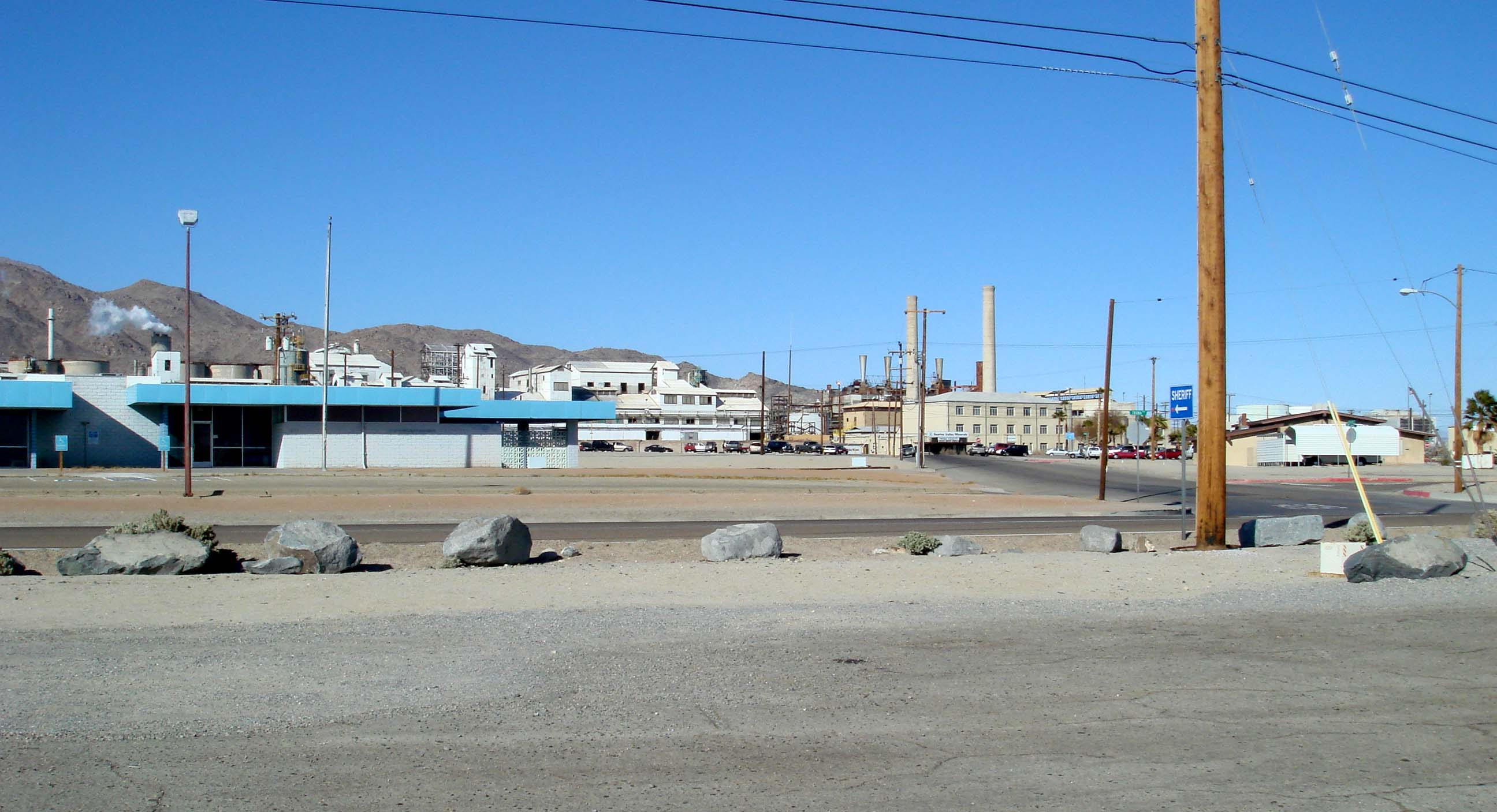 Soda Ash plant dominates downtown (In the picture above is not the soda ash plant but the Trona Facility, which mines boron products. The soda ash plant is located in the Argus Facility.) Trona, California.